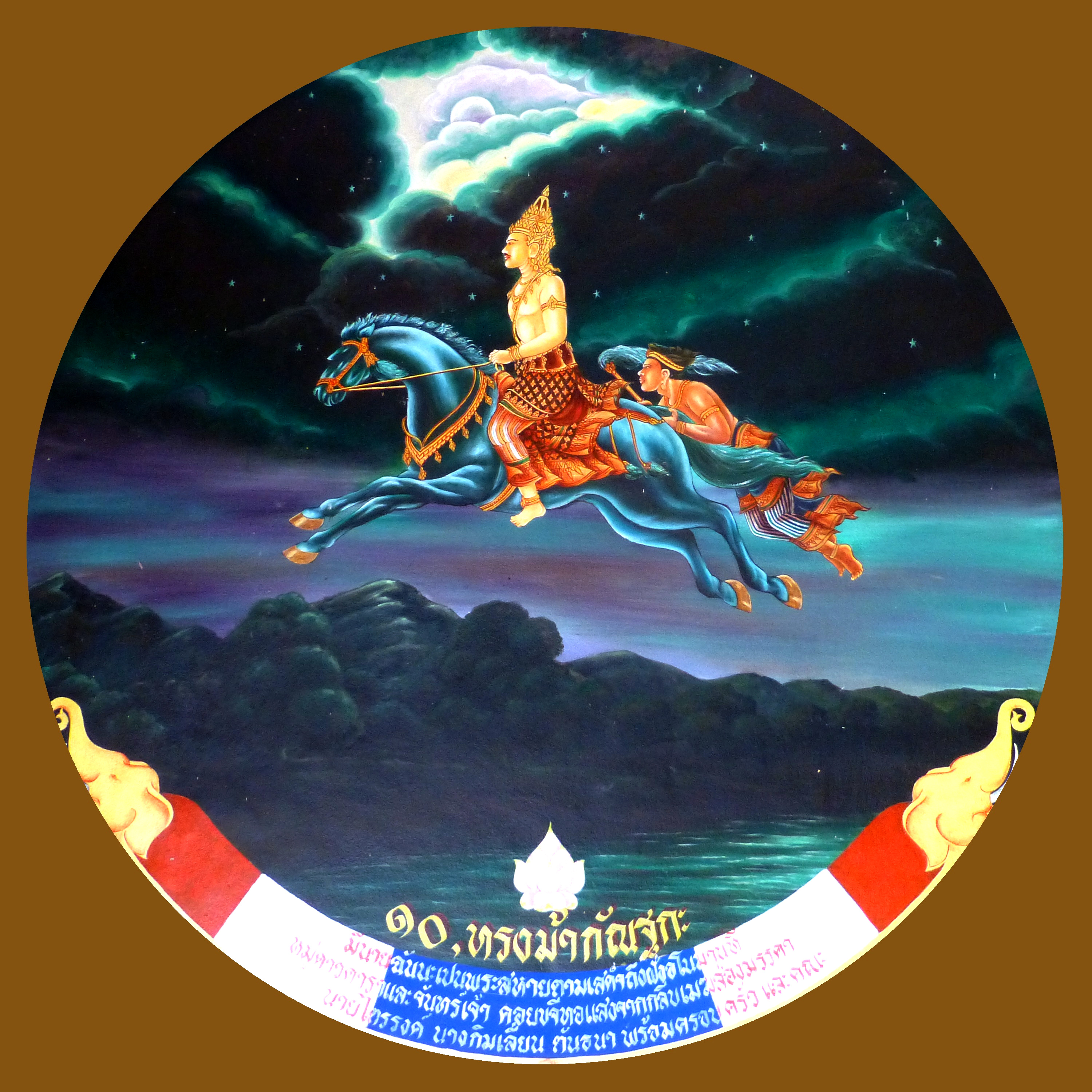 34 The Bodhisatta rides on Kanthaka crossing the River Anoma as Channa holds the Tail, Chedi Traiphop Traimongkhon Temple, Hatyai